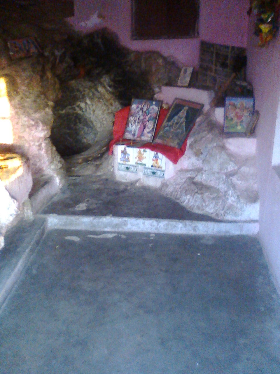 badalnath cave